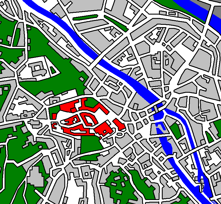 locator map of the Domberg in the German town of Bamberg